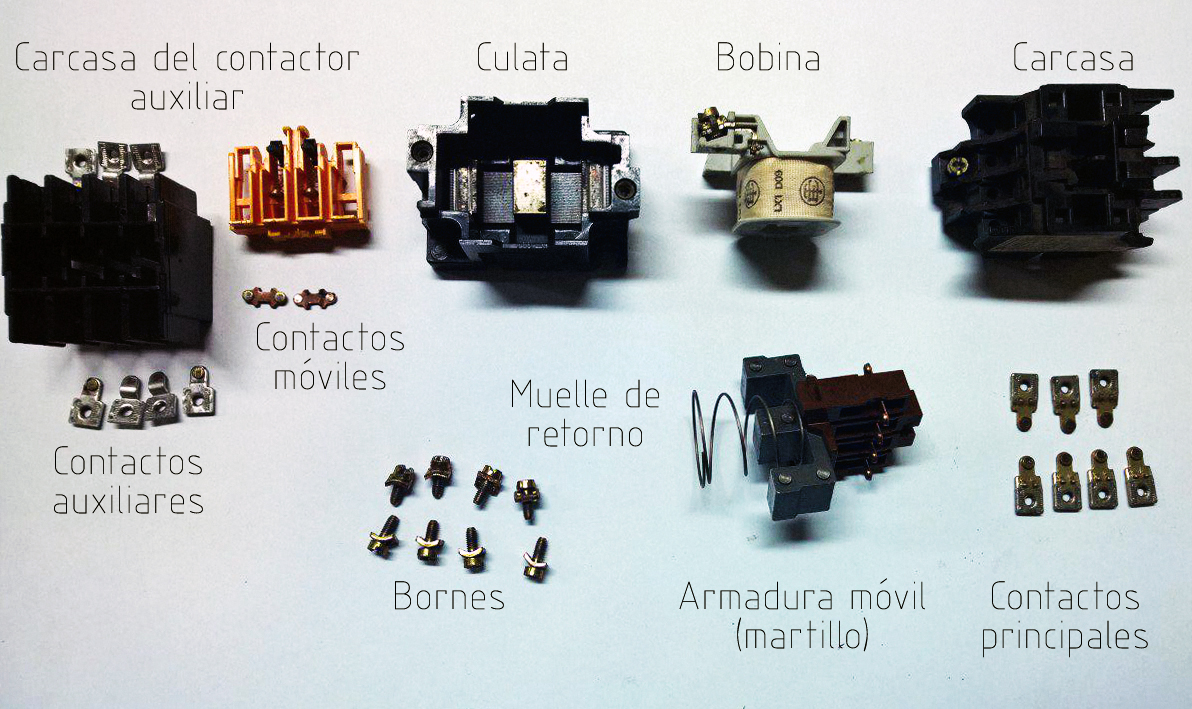 Labeled parts of a disassembled contactor